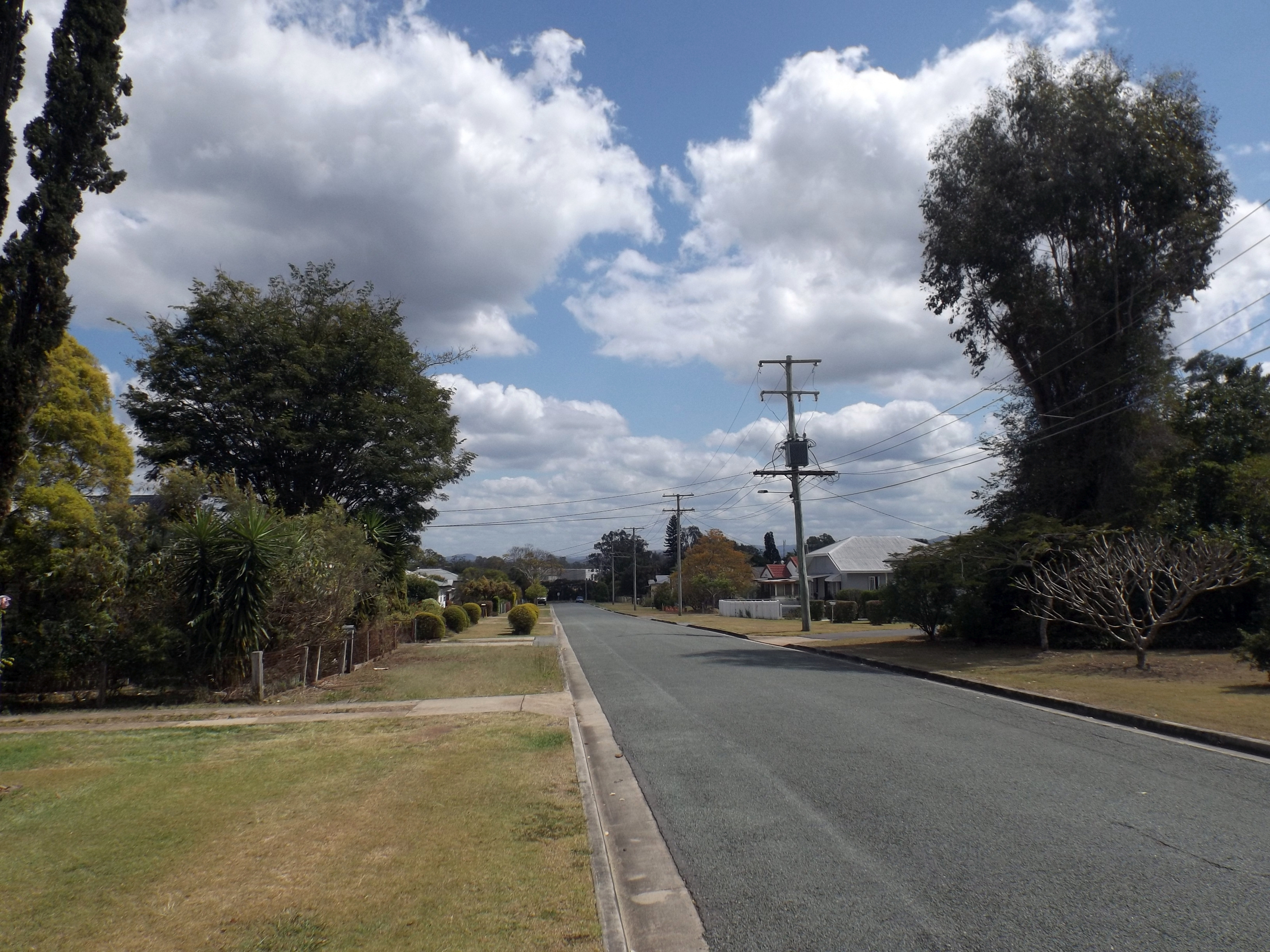 Photo of Phillips Street and houses at Ebbw Vale, Ipswich, Queensland, Australia.